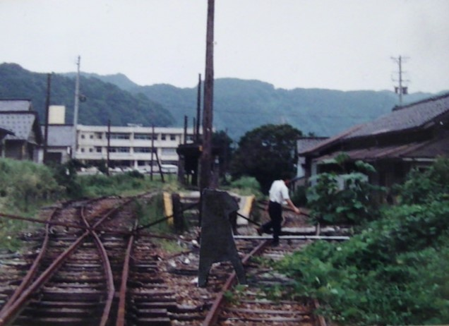 inside of Kamashimizu station